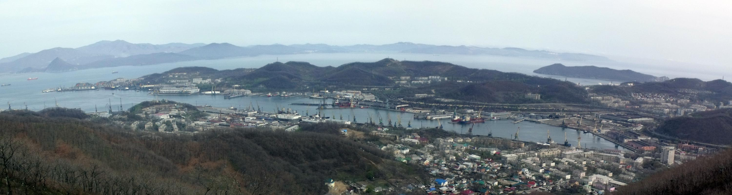 Nakhodka bay